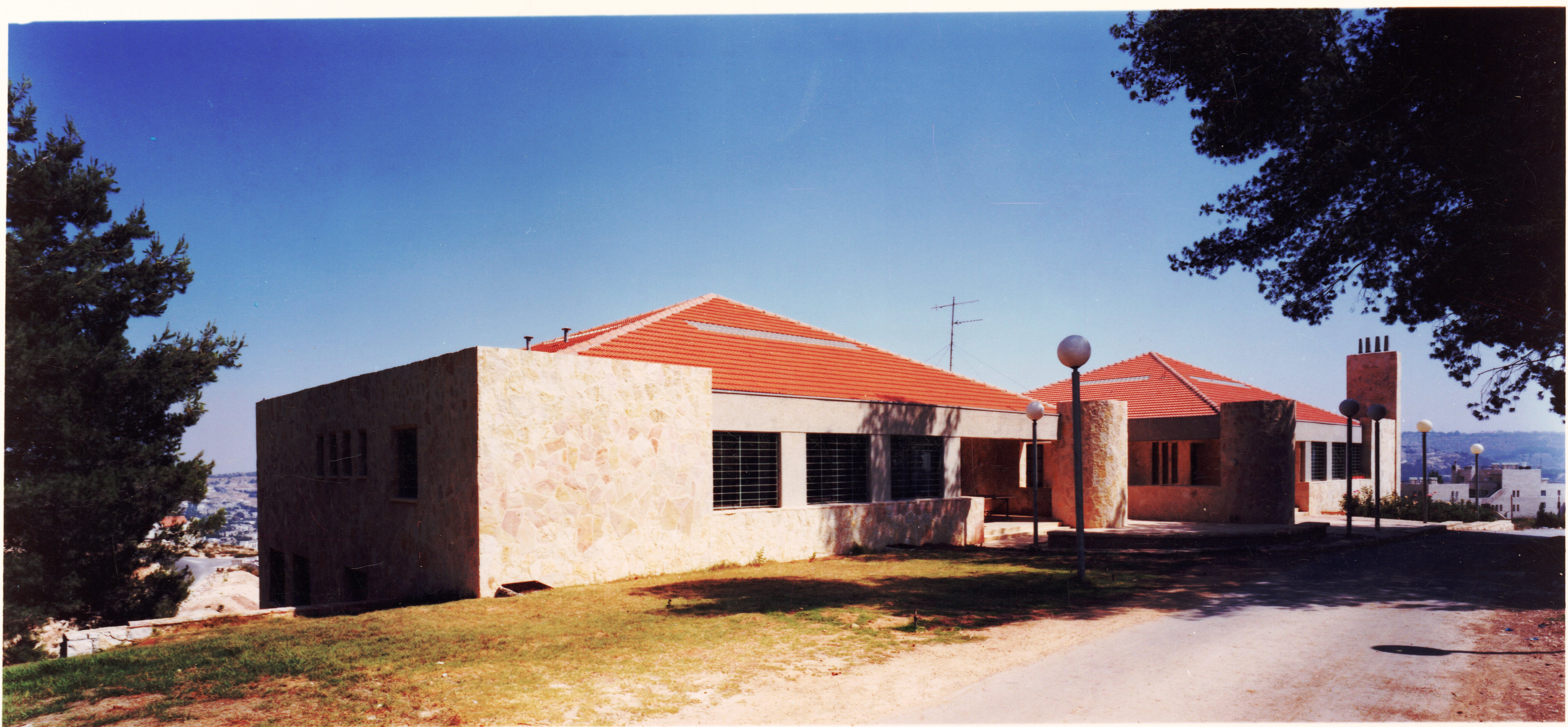 Children home near Abu Gosh, Jerusalem. Bnei-Brith Woman. Architect Yoram Fogel